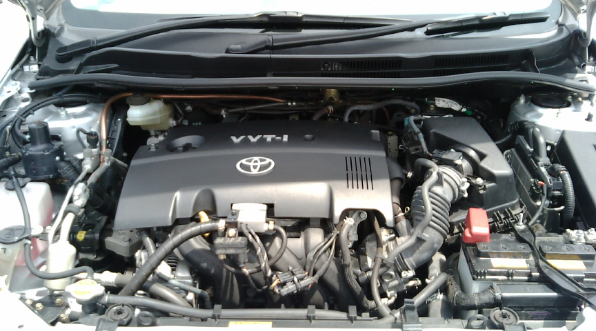 An engine room of Toyota Corolla converted to bifuel with LPG. You can find LPG injectors near black cover.